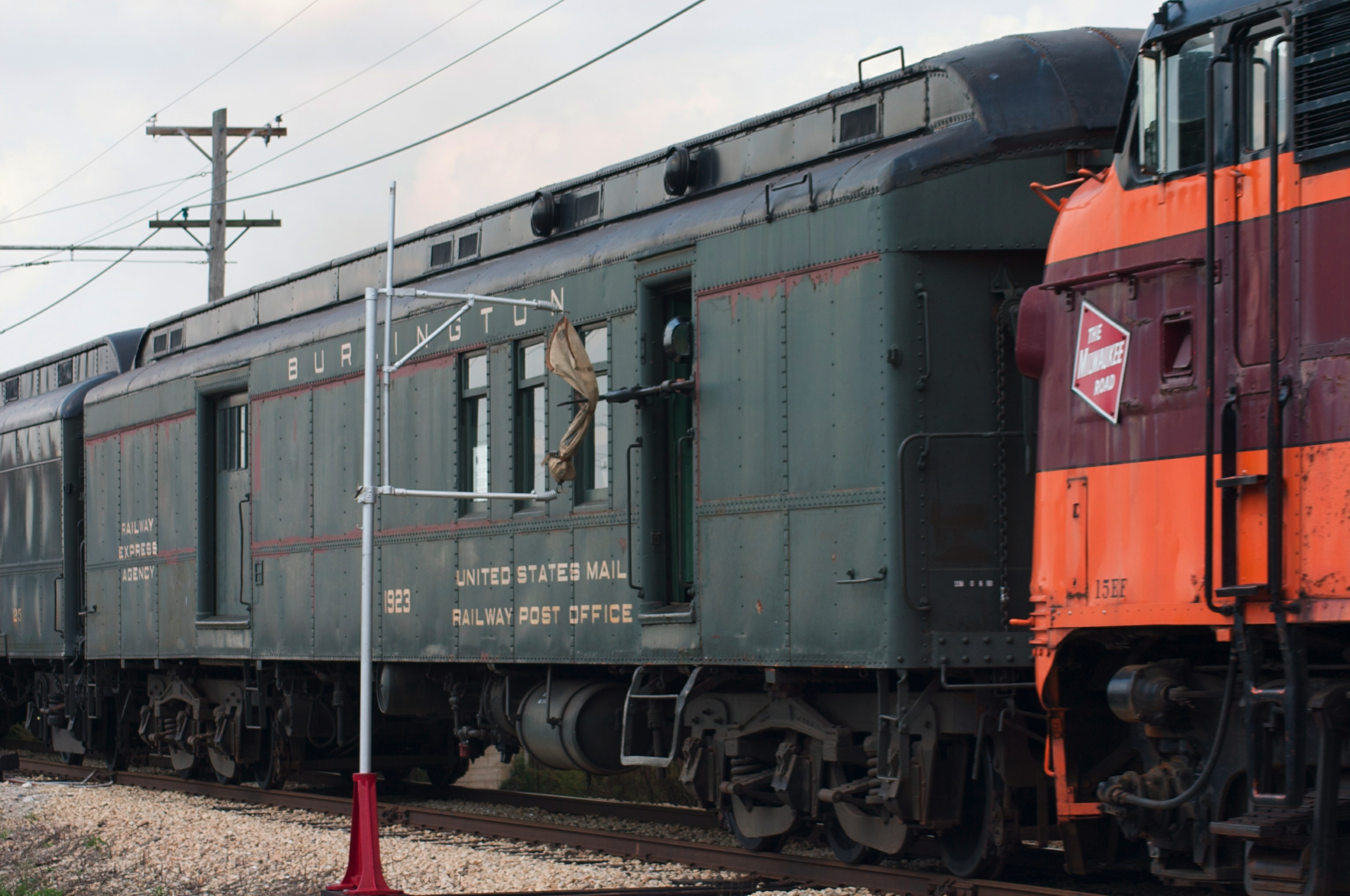 Traveling at more than 40 MPH, local stations wold transfer their outgoing mail to the Railway Post Office for sorting and delivery. This shot was the exact moment of transfer....lets hope there is nothing fragile in there!